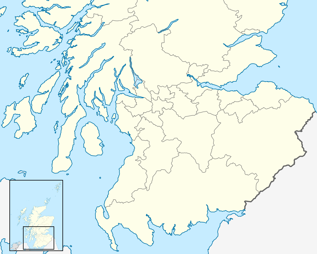 Map of south Scotland